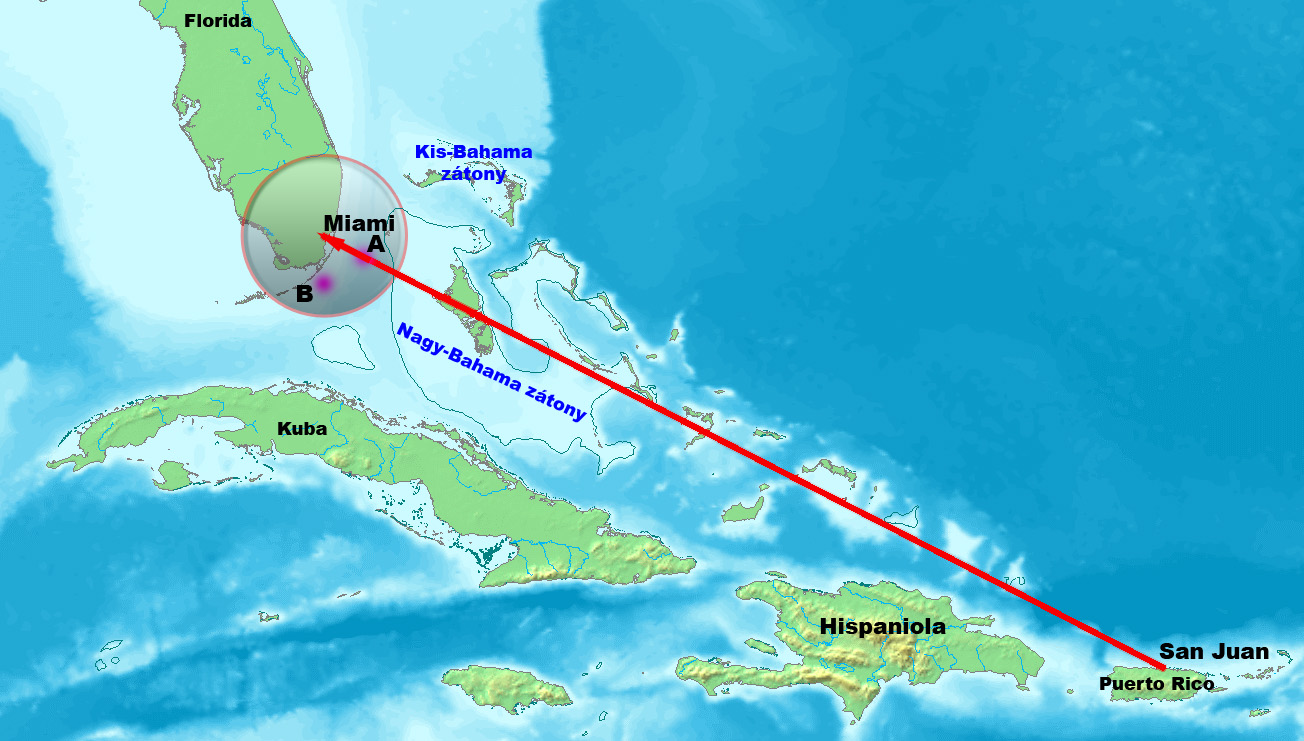 Way of DC-3 missed in December 28th, 1948